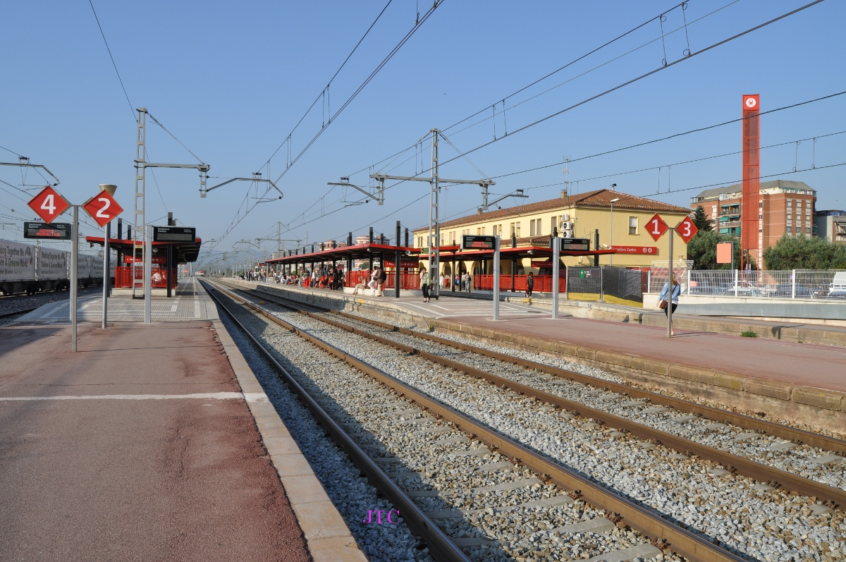 Granollers Centre railway station (Catalonia, Spain).